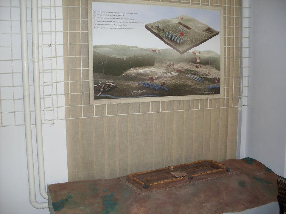 Battle of Čegar (1809)